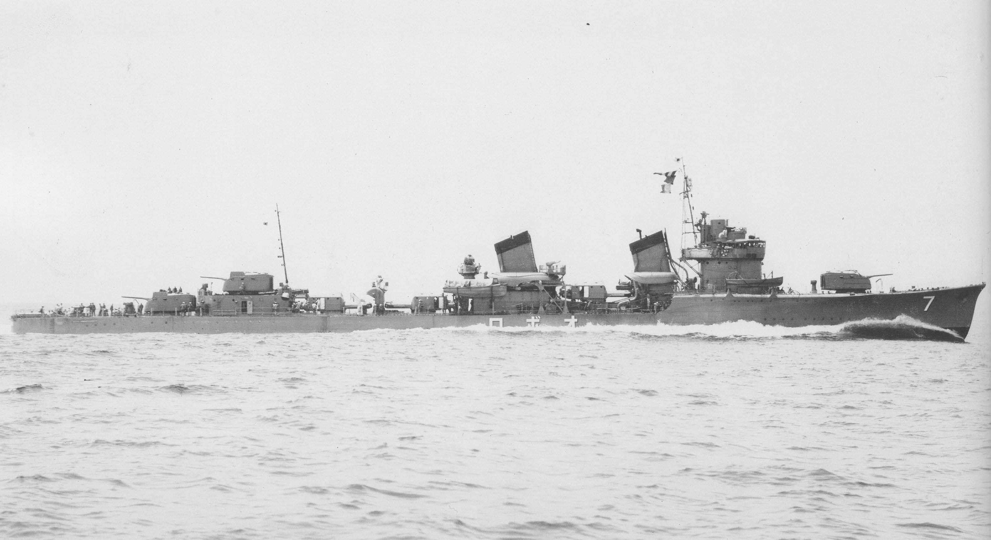 Imperial Japanese Navy destroyer Oboro, the second Japanese warship to bear that name.